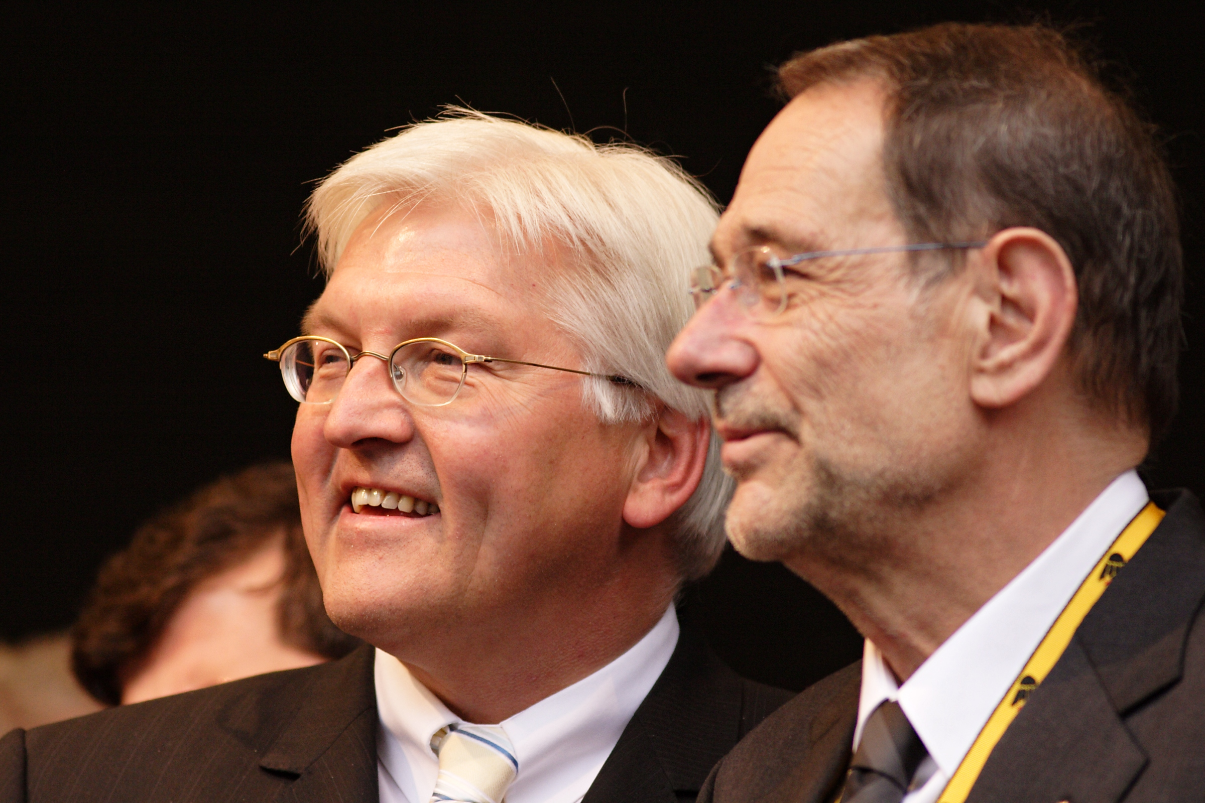 This image shows Frank-Walter Steinmeier (on the left), the Foreign Minister of Germany, who is talking with Javier Solana, the High Representative for the Common Foreign and Security Policy (CFSP) and the Secretary-General of both the Council of the European Union (EU) and the Western European Union (WEU). The photograph was made on the occasion of the International Charlemagne Prize of the city of Aachen (Karlspreis) in 2007.